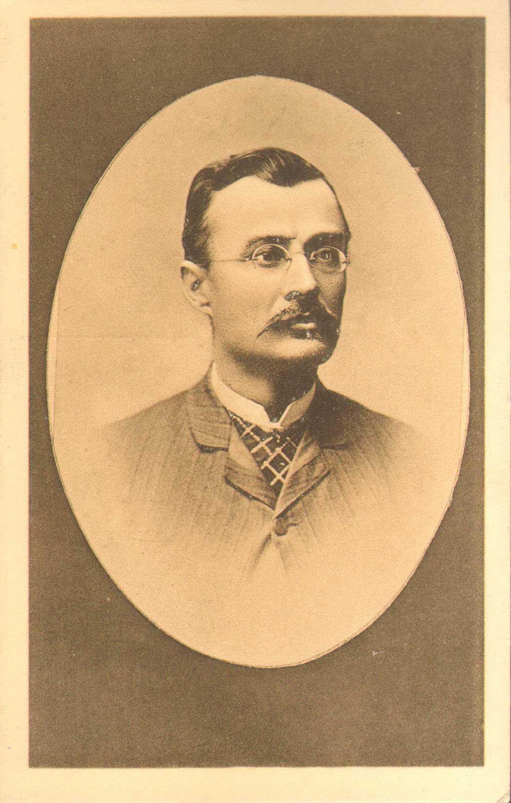 Photograph of Pavle Marković-Adamov (1855-1907), Serbian romanticism writer, founder and editor of the literary magazine Brankovo kolo (1924). Srpski (latinica): Fotografija Pavla Markovića-Adamova (1855-1907), srpskog romantičarskog književnika i osnivača i urednika književnog lista Brankovo kolo (1924).